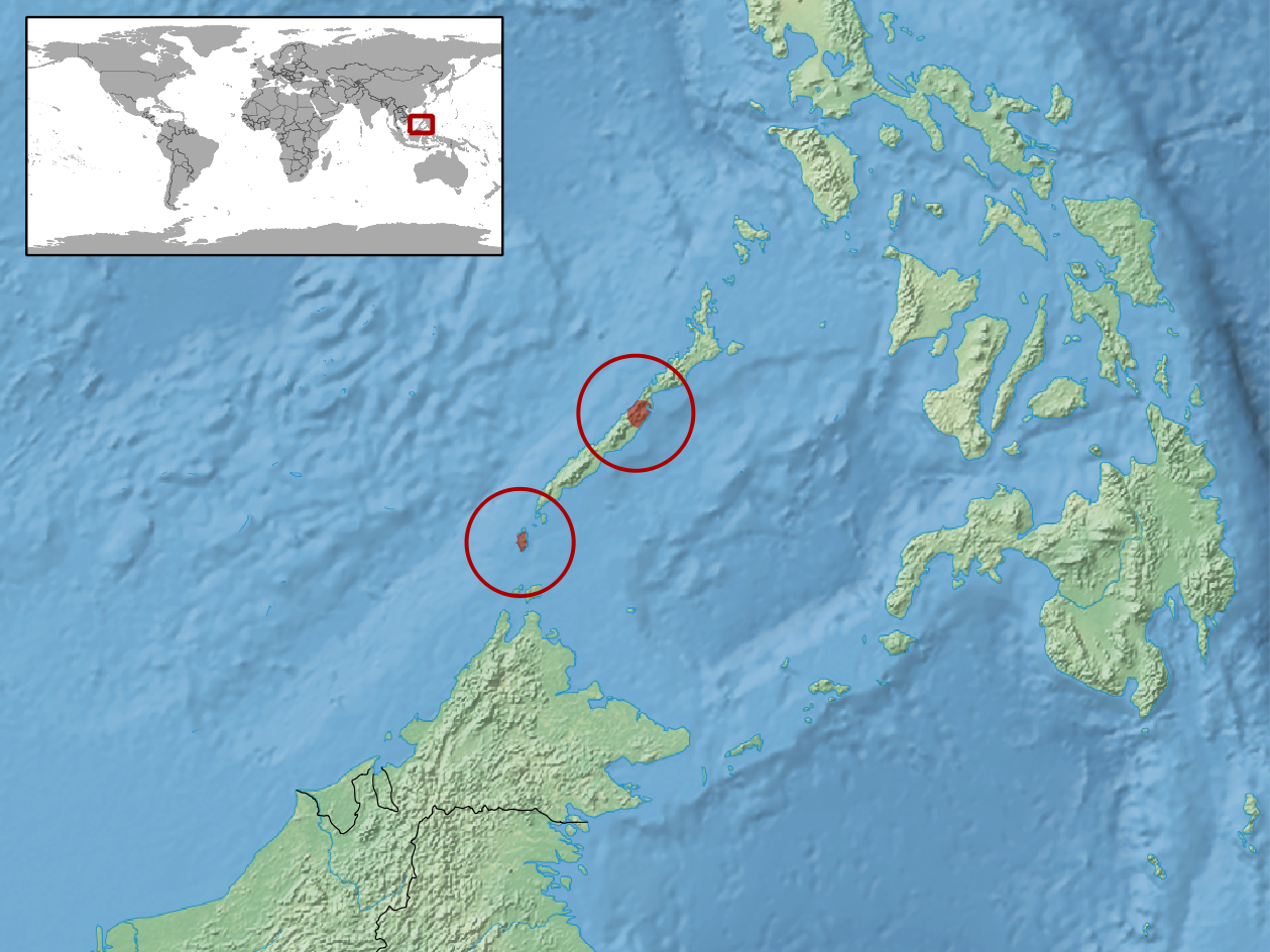 geographic distribution of Dryocalamus philippinus (Native: Philippines)